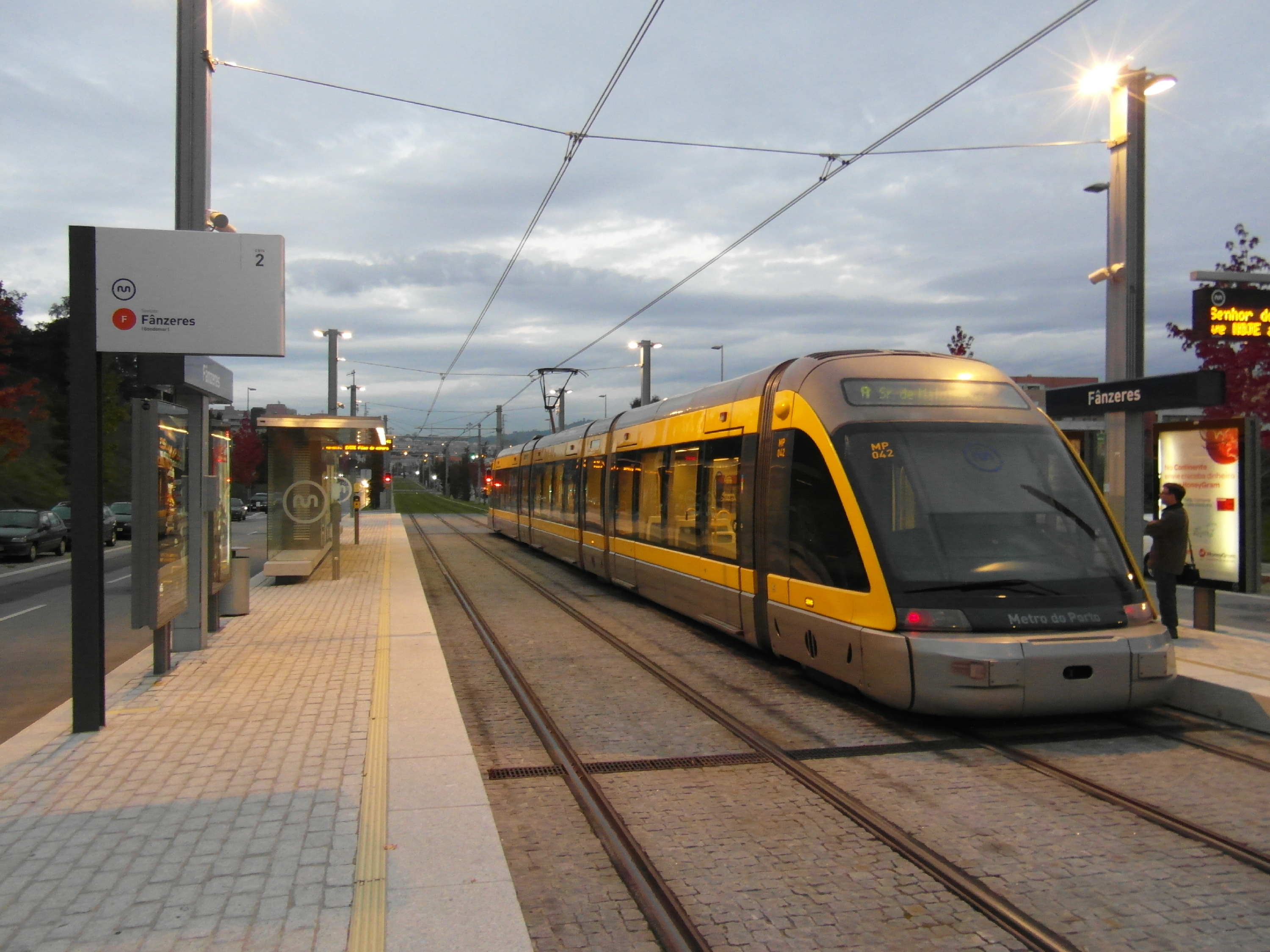 Oporto light rail rolling stock